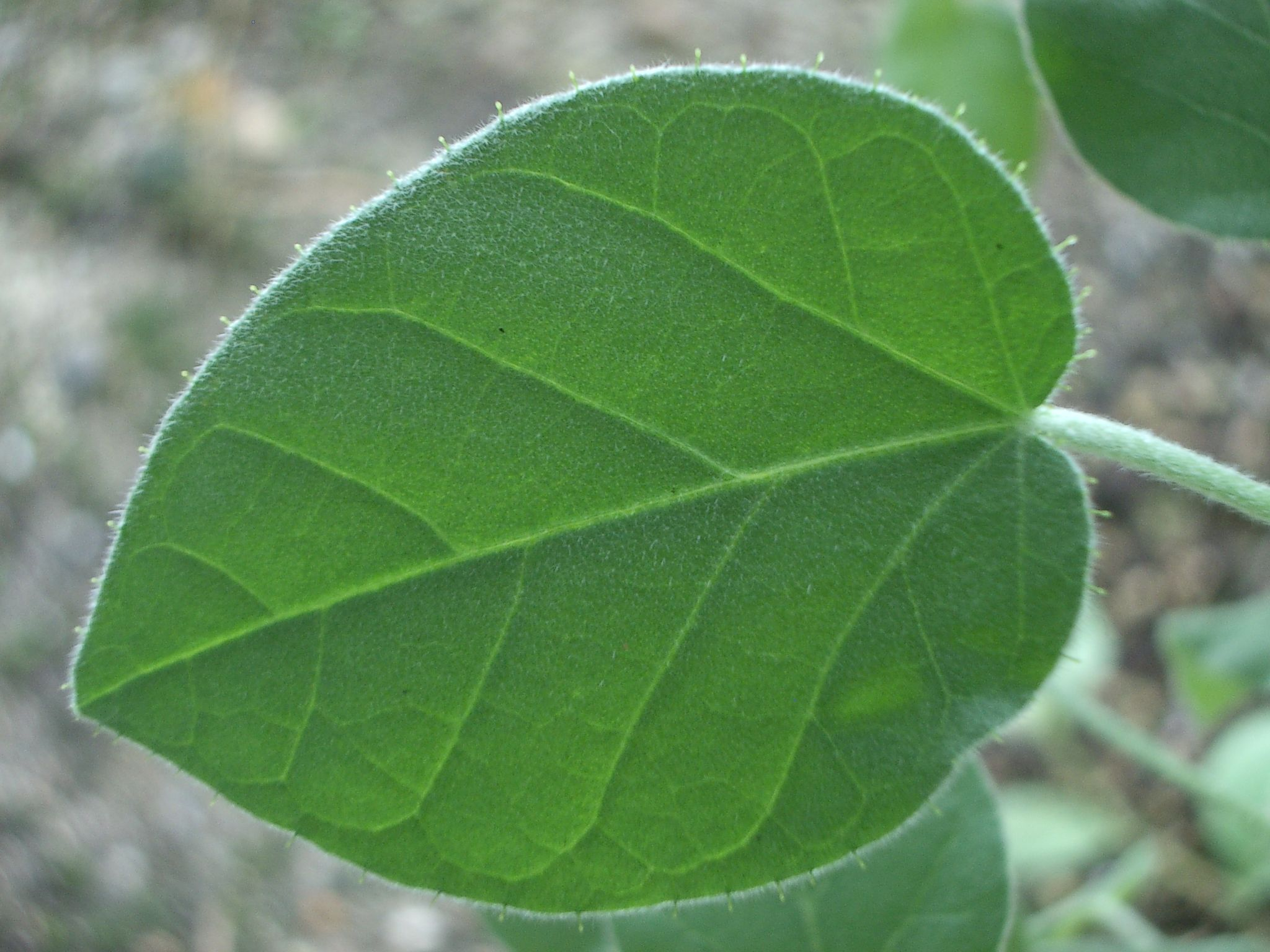 Description: Croton ciliatoglandulifer leaf